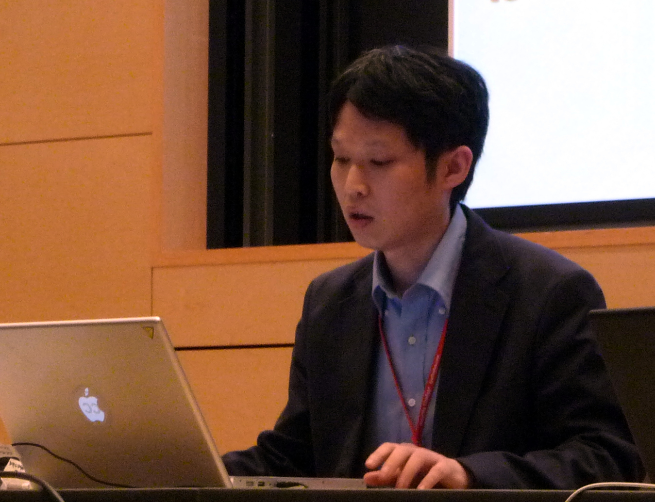 Tomoaki Watanabe, Research Fellow of the Center for Global Communications, International University of Japan, attended the iCommons Summit at Sapporo Convention Center in Sapporo City, Hokkaidō on July 29, 2008.